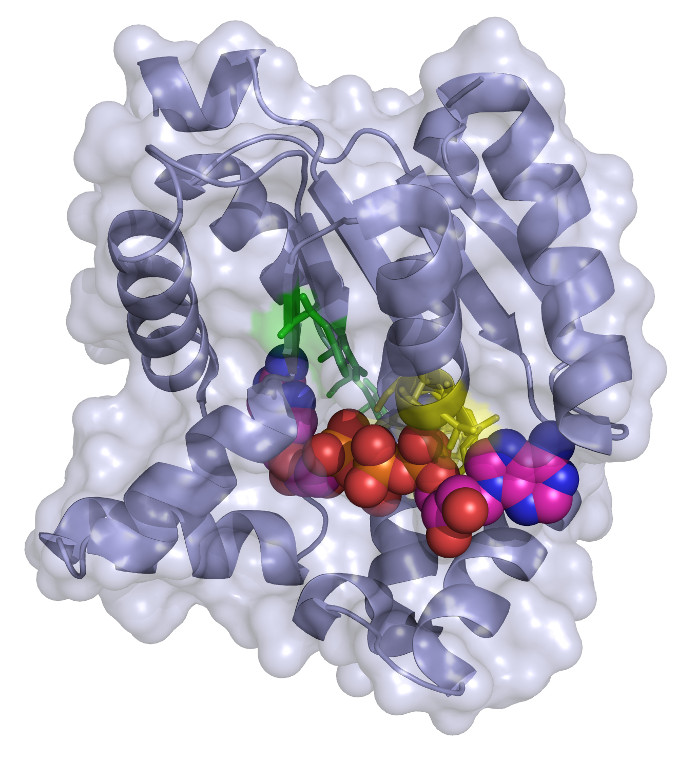 3d ribbon/surface model of adenylate kinase in complex with bis(adenosine)teraphosphate (ADP-ADP) after PDB 2C95. The active center is colored yellow, the ATP binding site green. Ref.: g.bunkoczi et al. structure of adenylate kinase 1 in complex with p1, p4-di(adenosine)tetraphosphate. TO BE PUBLISHED, .